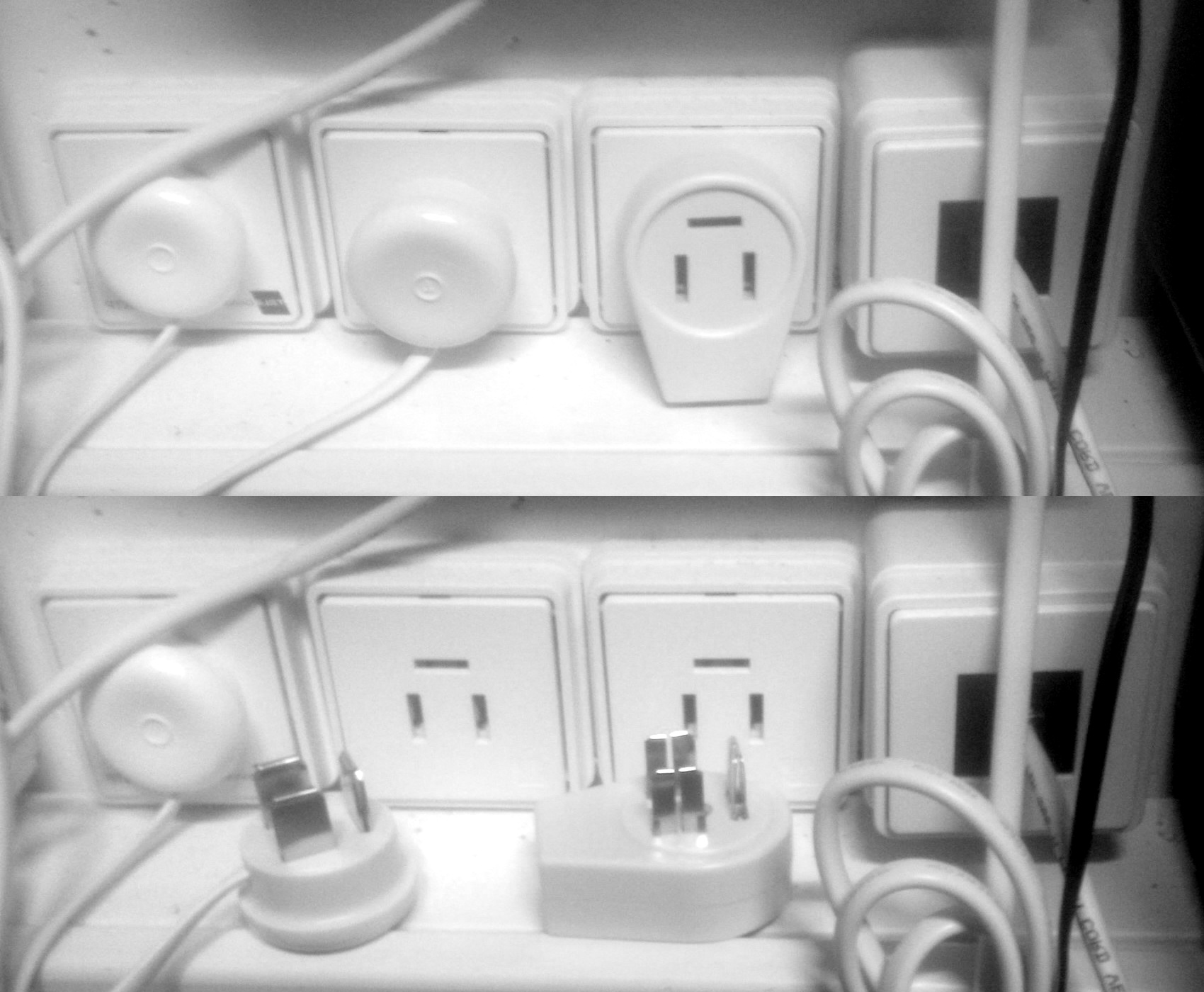 Danish Telephone plugs, from left to right: Shallow wall socket with modern thin plug, shallow wall socket with earlier 18mm plug, shallow wall socket with RJ11 Telephone adapter (doesn't fit due to cable duct below), normal size RJ11 wall socket with plug. This photo was mirrored to make the description easier to follow. It is a composite of two pictures taken in sequence with the same plugs inserted and unplugged. The setting is real, although additional plugs were inserted in unused sockets for the photo. The plugs, socket, wall, cable duct etc. really are black and white, this is not an artifact of the B/W image.